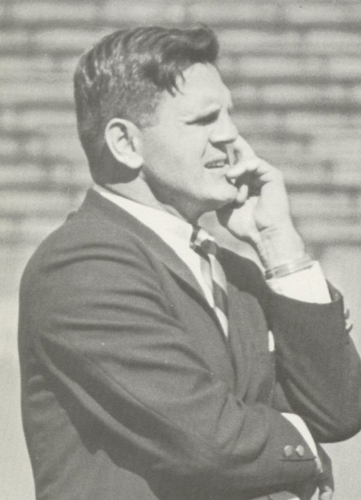 Pitt Panthers football coach Lowell "Red" Dawson